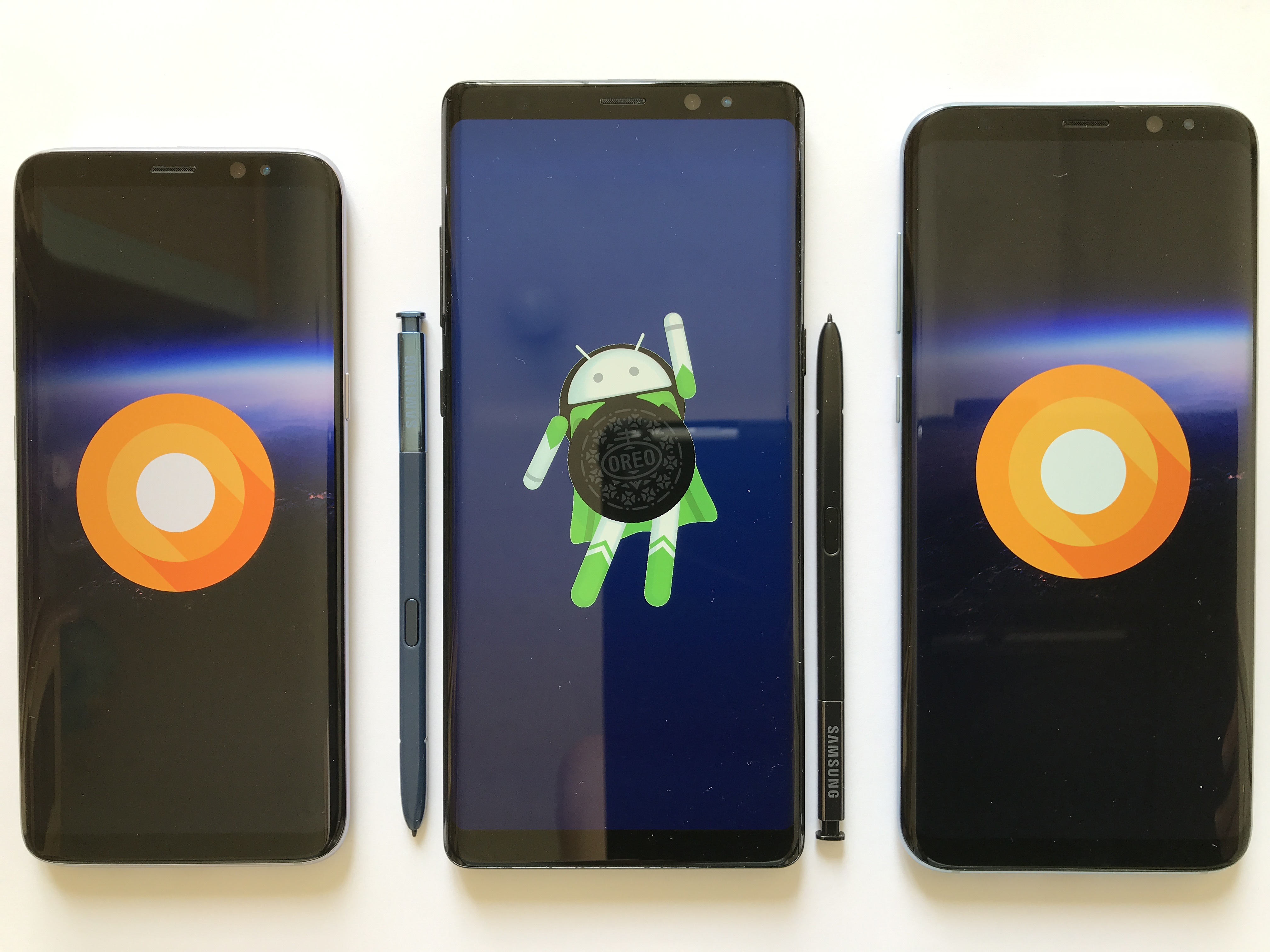 Android 8.0 Oreo